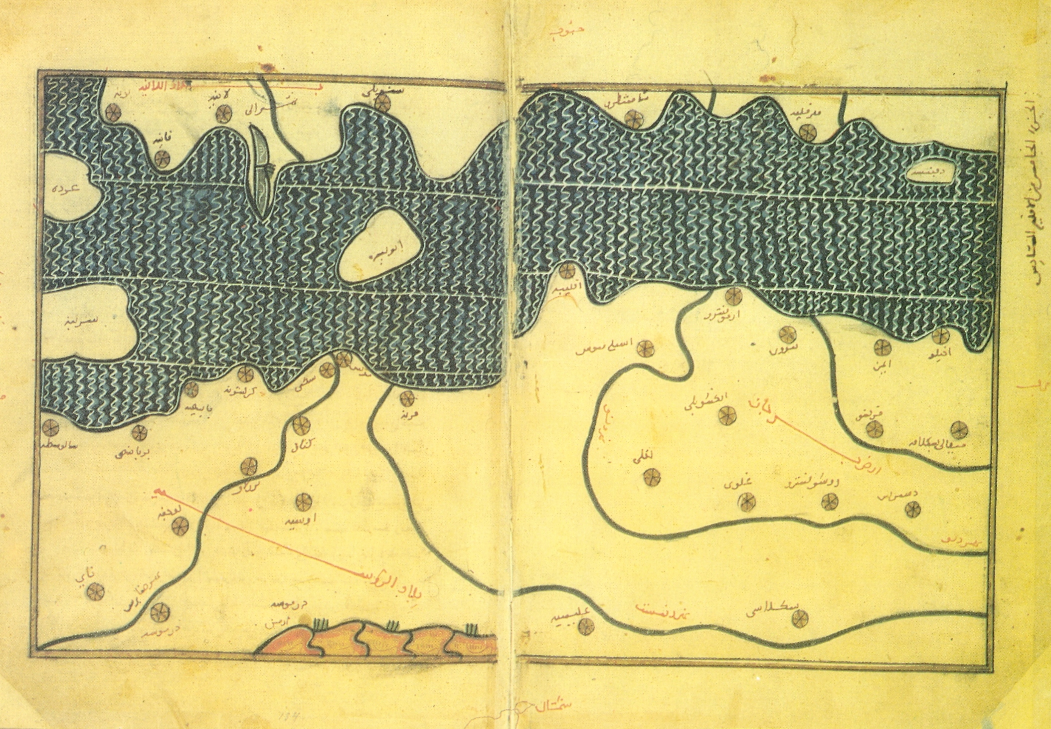 Muhammad al-Idrisi. Saint Petersburg transcript of VI-5.The map displays: part of Bulgarian Black Sea coastline from about Burgas Bay to Danube River, Dobrudzha region. To the east are shown parts of the European territory of Russia: regions around river Dniester and Dnieper. To the south are shown big parts of the Anatolia Black Sea coastline and a big part of Black Sea.